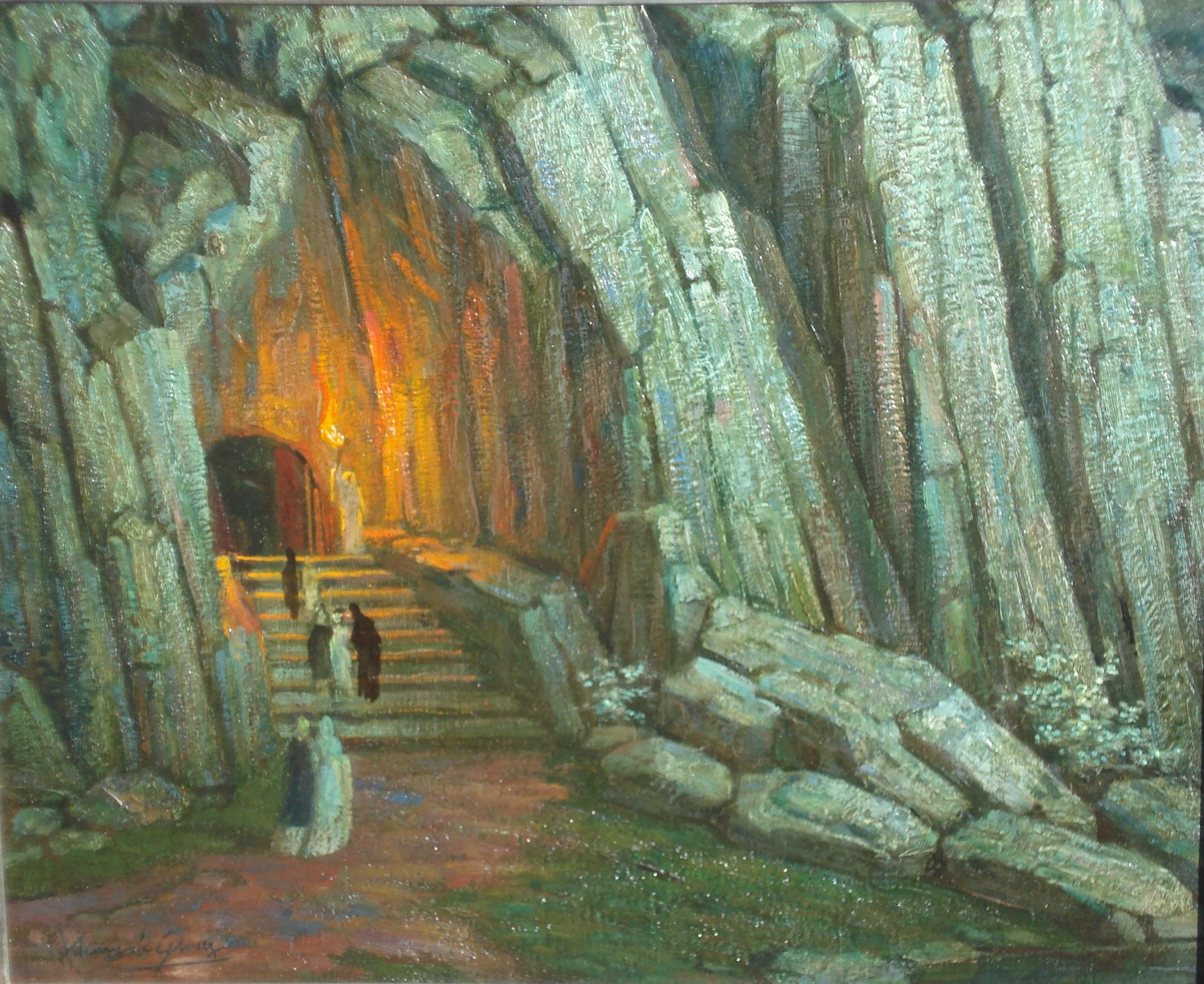 painting by Henry De Groux (1866-1930)